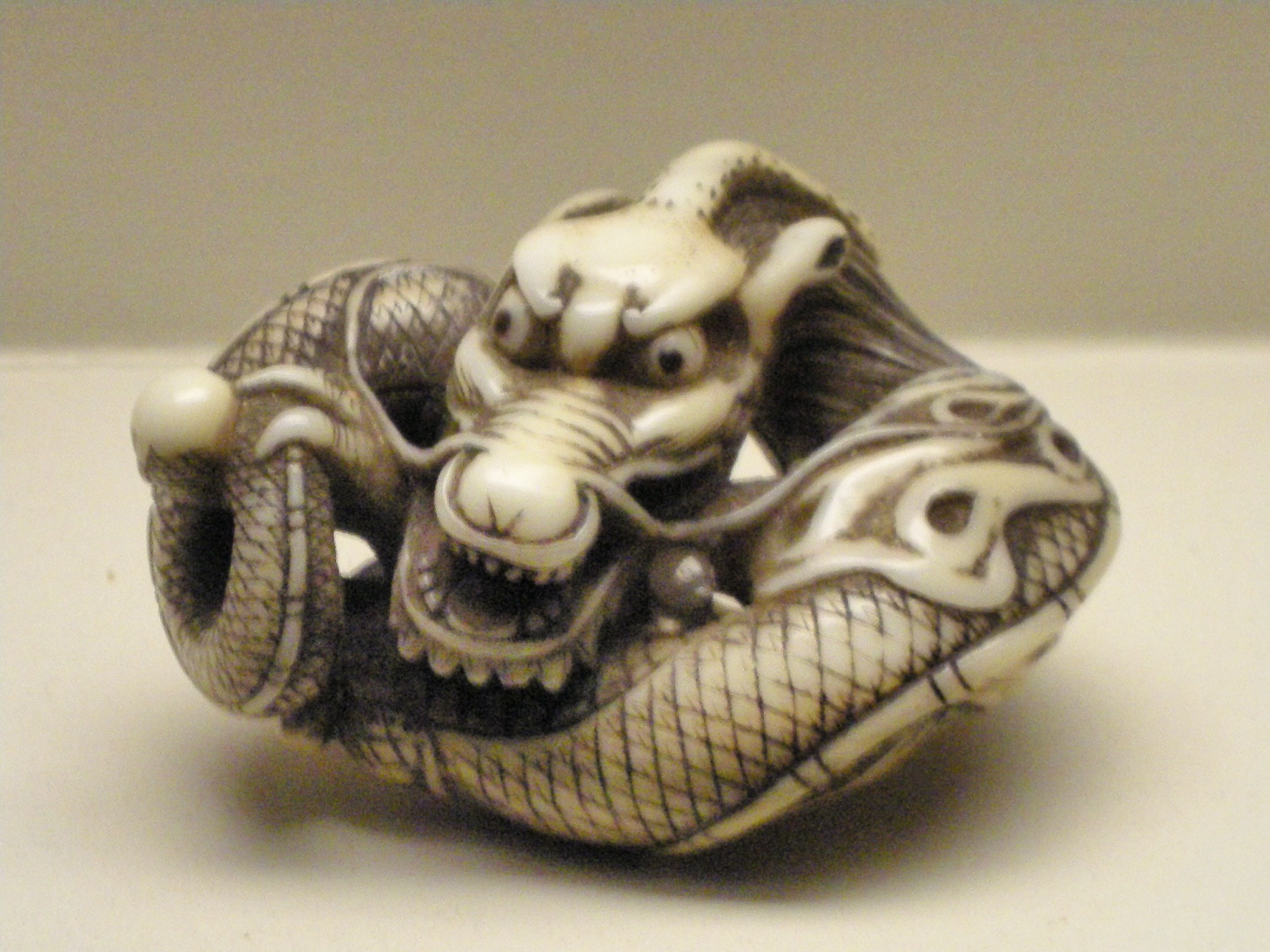 Netsuke Japan 1700-1870 Ivory Wikipedia Loves Art at the Victoria and Albert Museum This photo of item # 411-1904 at the Victoria and Albert Museum was contributed under the team name "VeronikaB" as part of the Wikipedia Loves Art project in February 2009. Victoria and Albert Museum The original photograph on Flickr was taken by VeronikaB—please add a comment to the original Flickr page whenever a use has been made on Wikipedia or another project. Project galleries on Flickr: this institution, this team